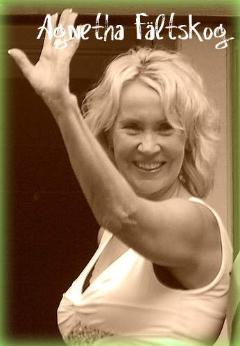 Agnetha Fältskog (album)